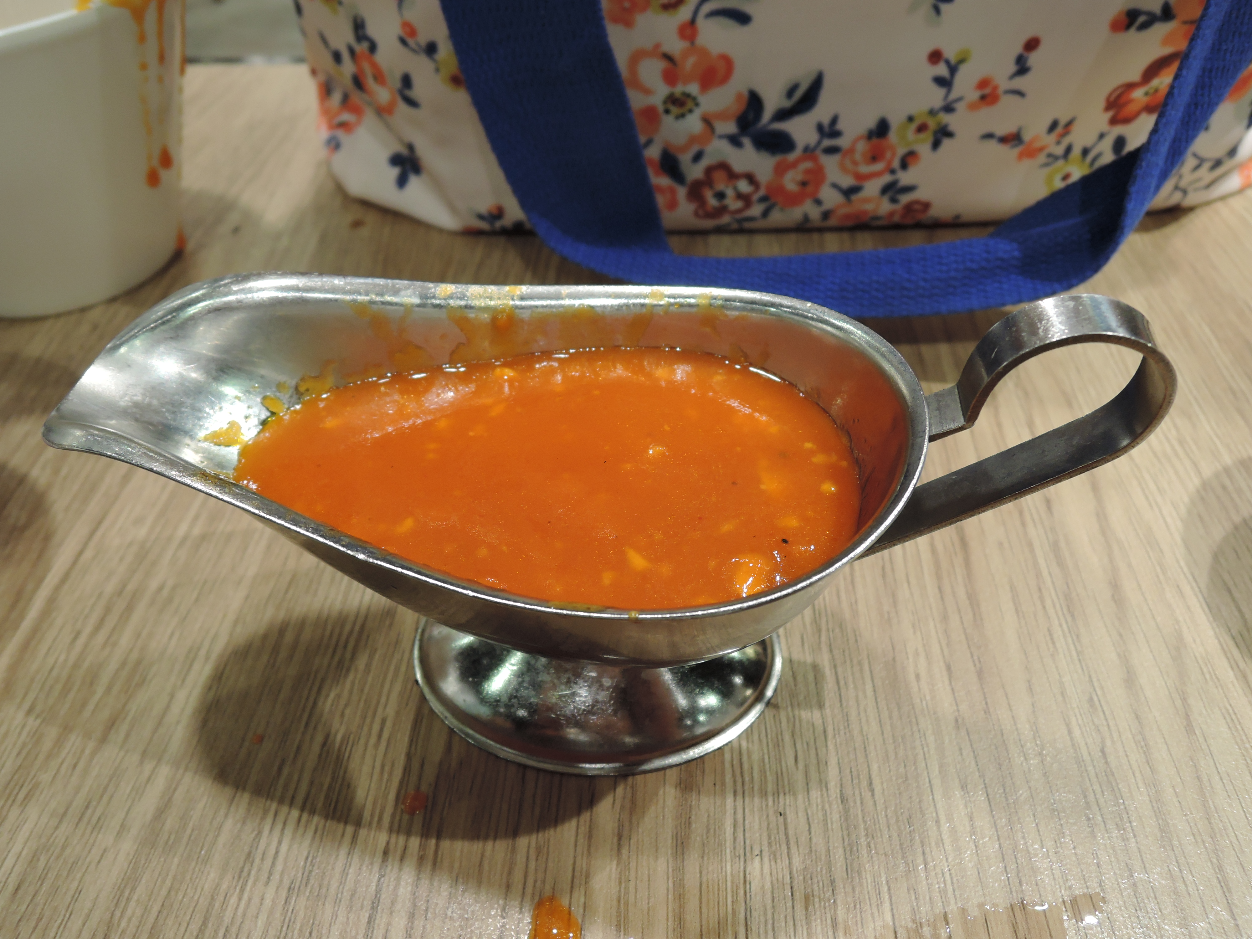 garlic sauce in sauce boat from local restaurant in d park at tsuen wan